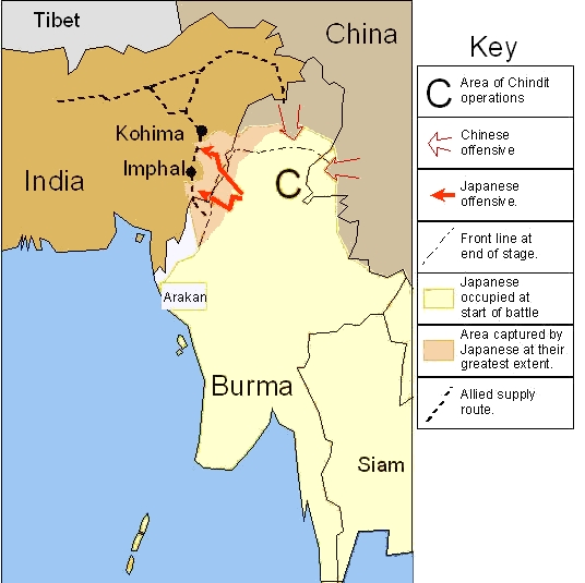 Author Mike Young